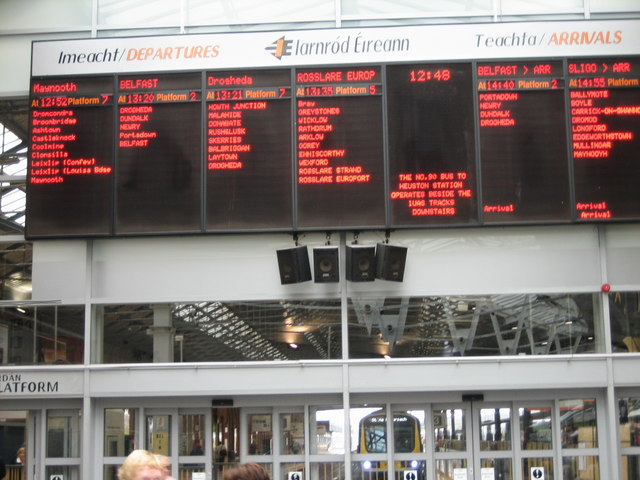 Destination/Arrivals Board, Connolly Station. Not nearly as busy as Heuston Station, the train below the board has come from Sligo.